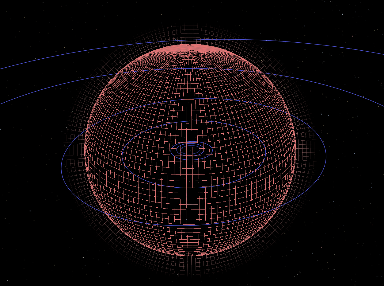 Rendering of VV Cephei A on Celestia. Saturn's orbit is the circumference just above the surface of the star.